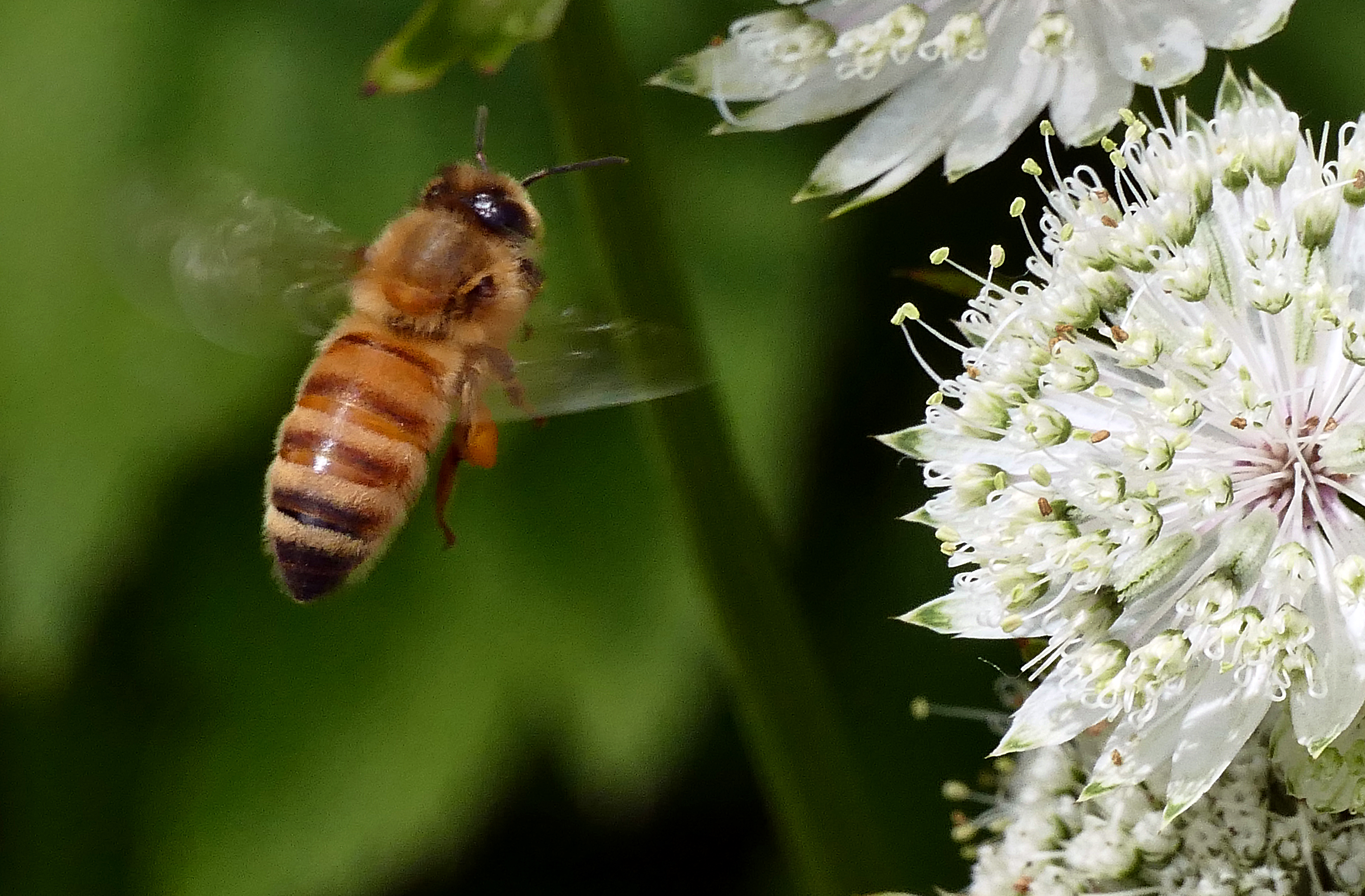 Bees are flying insects closely related to wasps and ants, known for their role in pollination and, in the case of the best-known bee species, the European honey bee, for producing honey and beeswax. Bees are a monophyletic lineage within the superfamily Apoidea, presently considered as a clade Anthophila. There are nearly 20,000 known species of bees in seven to nine recognized families, though many are undescribed and the actual number is probably higher. They are found on every continent except Antarctica, in every habitat on the planet that contains insect-pollinated flowering plants.